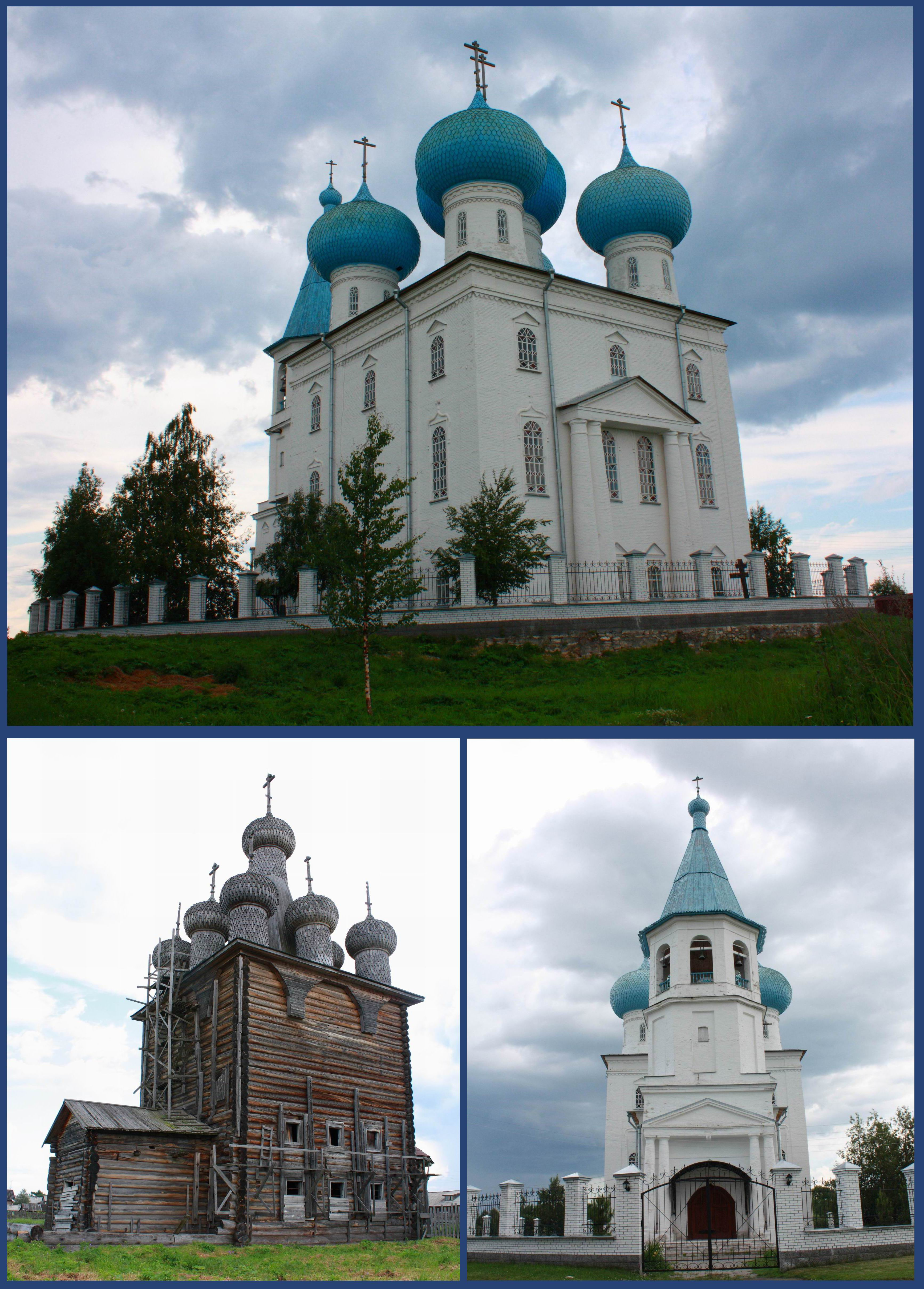 Zaostrovsky Pogost in the village of Zaostrovye, Primorsky District, Arkhangelsk Oblast, Russia: The wooden Intercession Church (1688), the whitestone Church of the Presentation of Jesus at the Temple (1827), and the bell-tower